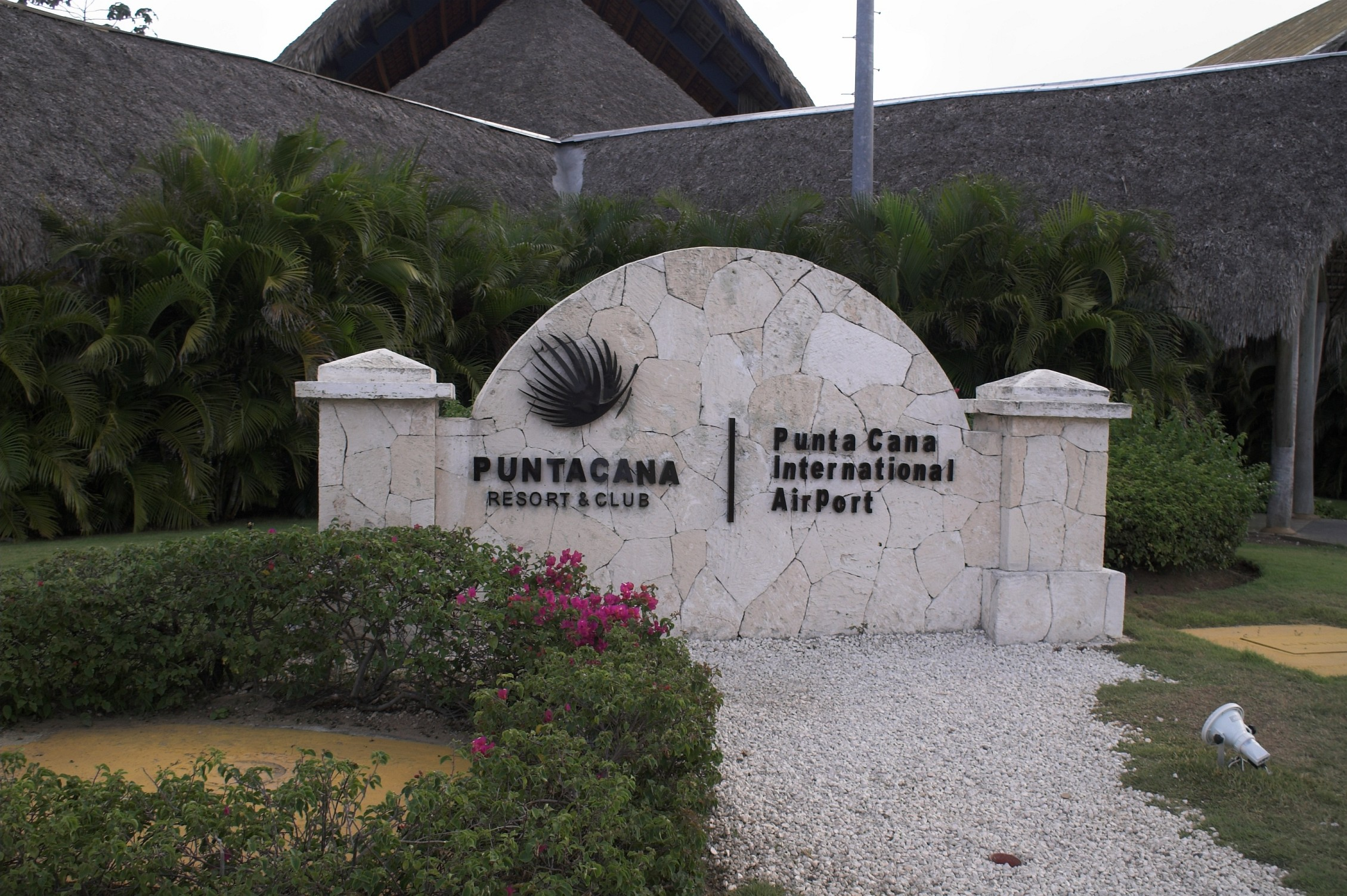 Punta Cana Airport